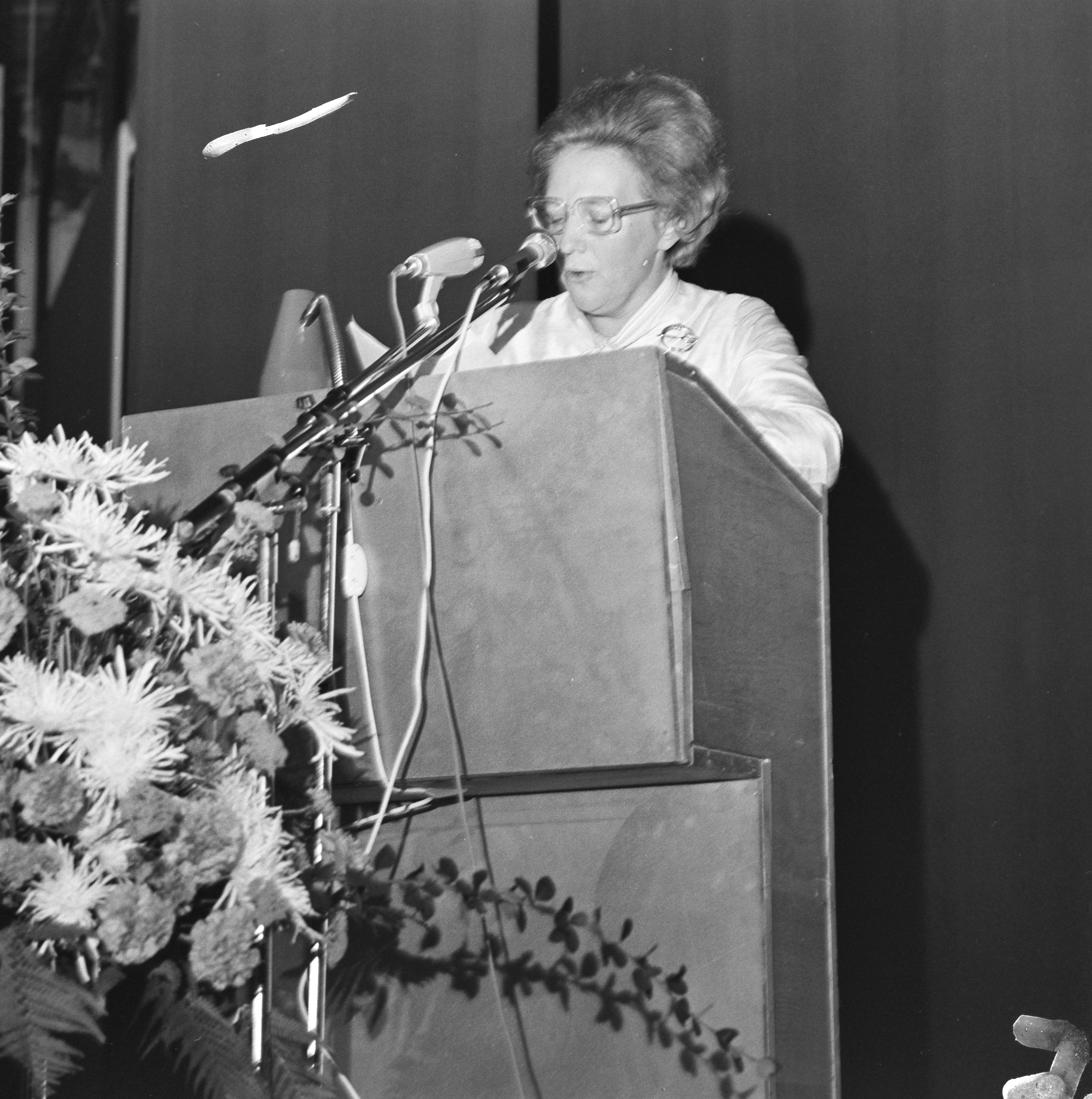 Photograph of the Finnish minister of edcation Marjatta Väänänen (1923–) speaking.